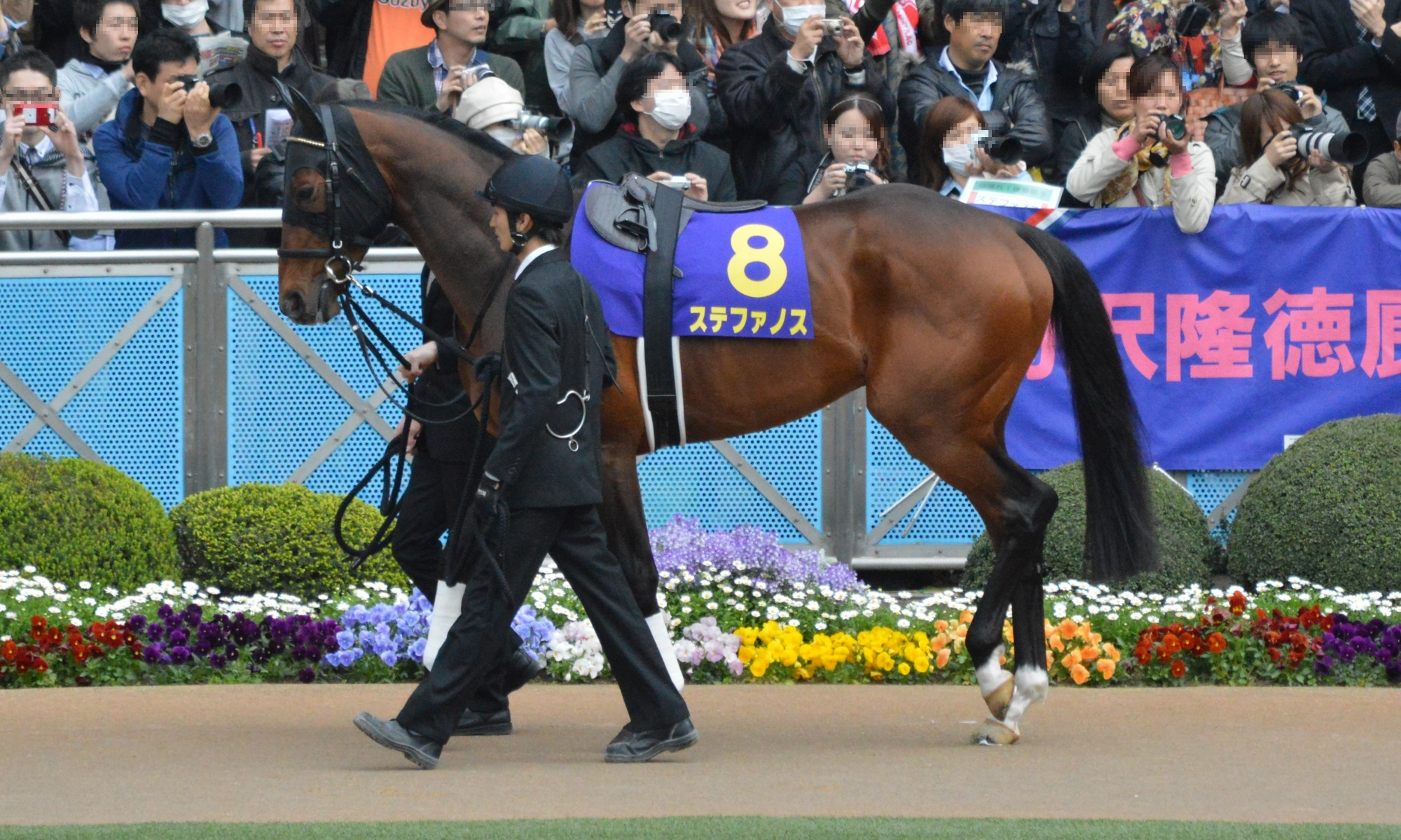 Japanese race horse Staphanos at Nakayama racecourse. Nakayama (JPN) 20 Apr 2014 Satsuki Sho (Japanese 2000 Guineas) (Grade 1) (3yo Colts & Fillies) (Turf) 1m2f Firm RankHorse NameOddsAgeWgtTrainerJockey1stIsla Bonita (JPN)41/10C39-0Hironori KuritaMasayoshi Ebina2ndTo The World (JPN)5/2FC39-0Yasutoshi IkeeYuga Kawada3rdWin Full Bloom (JPN)239/10C39-0Hiroshi MiyamotoDaichi Shibata4thOne And Only (JPN)57/10C39-0Kojiro HashiguchiNorihiro Yokoyama5thStaphanos (JPN)99/1C39-0Hideaki FujiwaraHiroki Goto